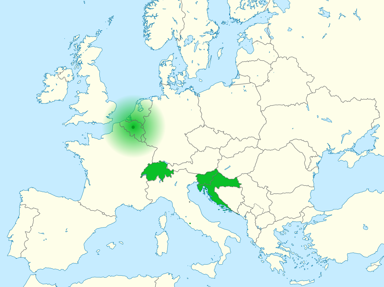 Observatory of Istitutional Italian out of Italy (OIIFI). Contries and areas: Switzerland, Slovenia, Croatia, San Marino, Vatican City, European Union. country/area monitored by OIIFI